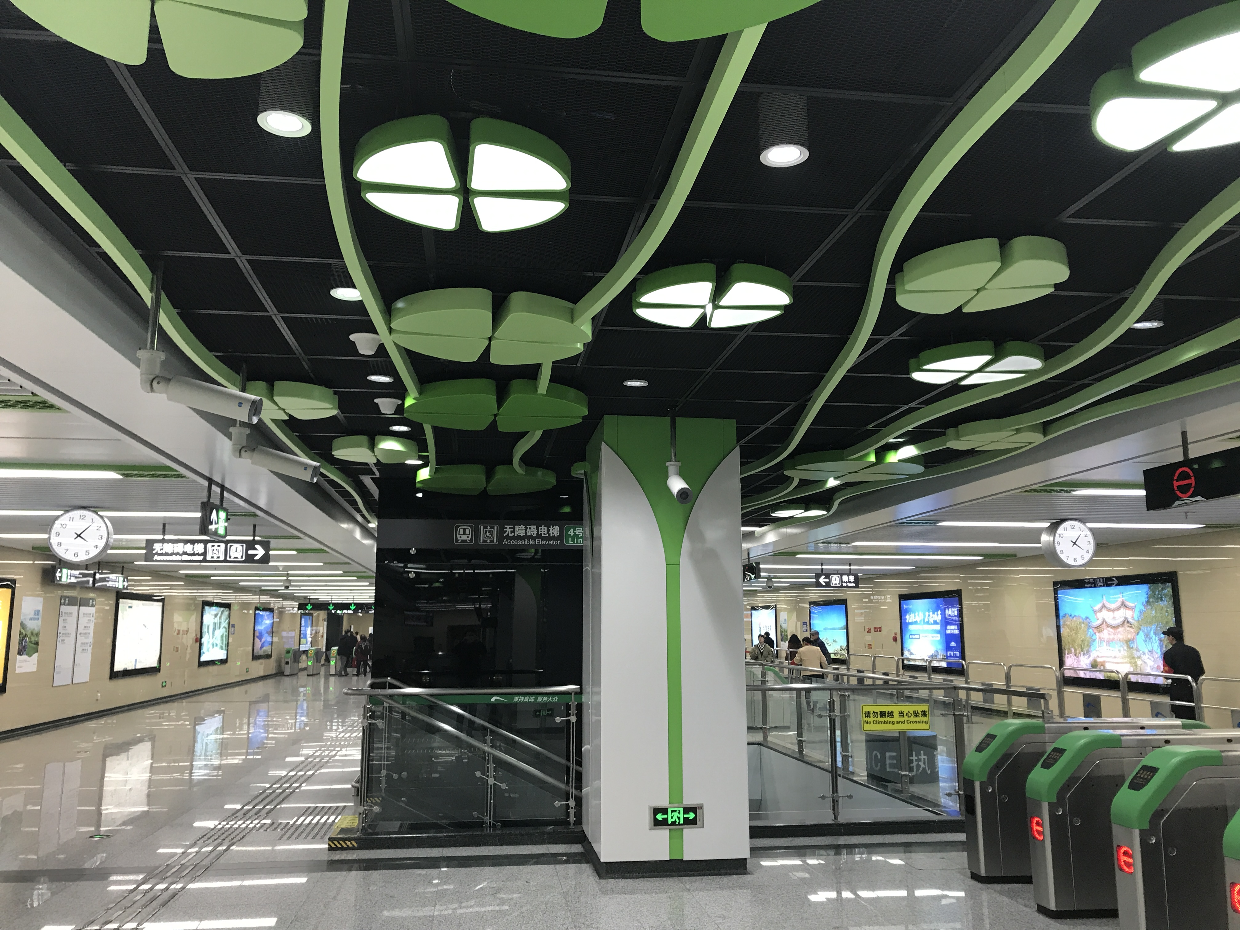 Decoration in Nanxun Avenue Station, Chengdu Metro